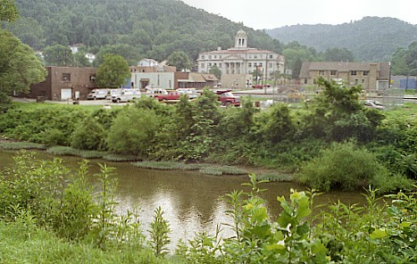 The Little Coal River in Madison, West Virginia. The Boone County Courthouse is visible in the background.